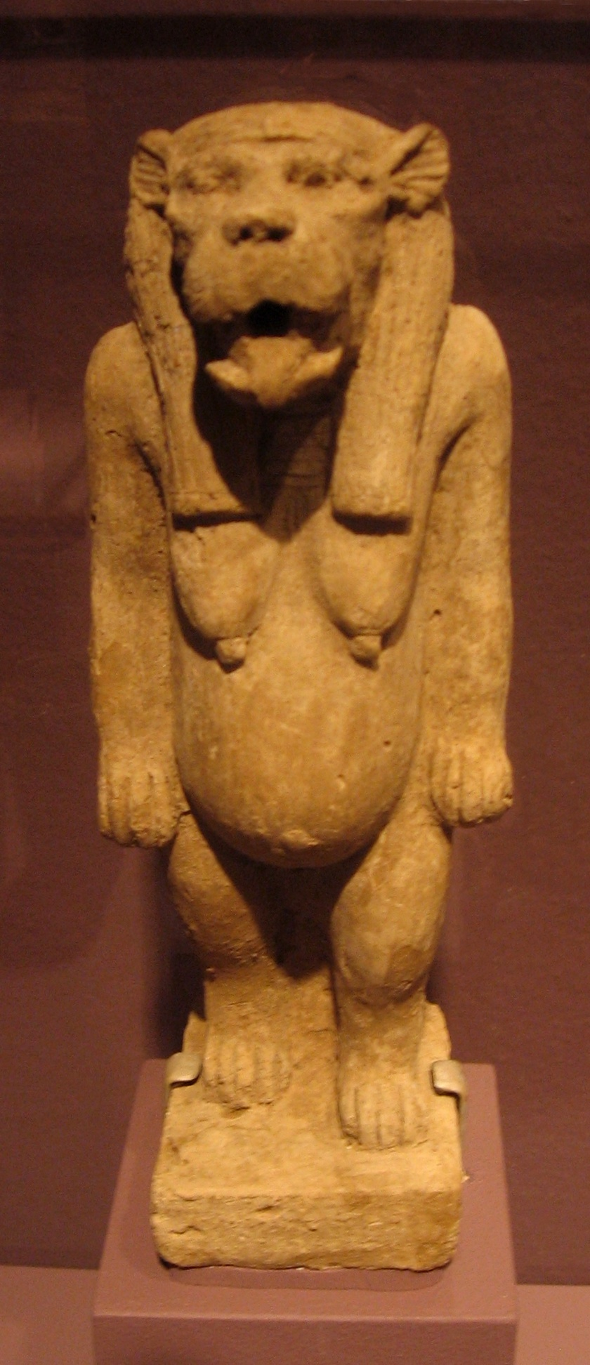 Clay statue of the goddess Taweret, found in a foundation deposit under the enclosure wall of the pyramid of King Anlamani (623-595 BCE), in Nubia.